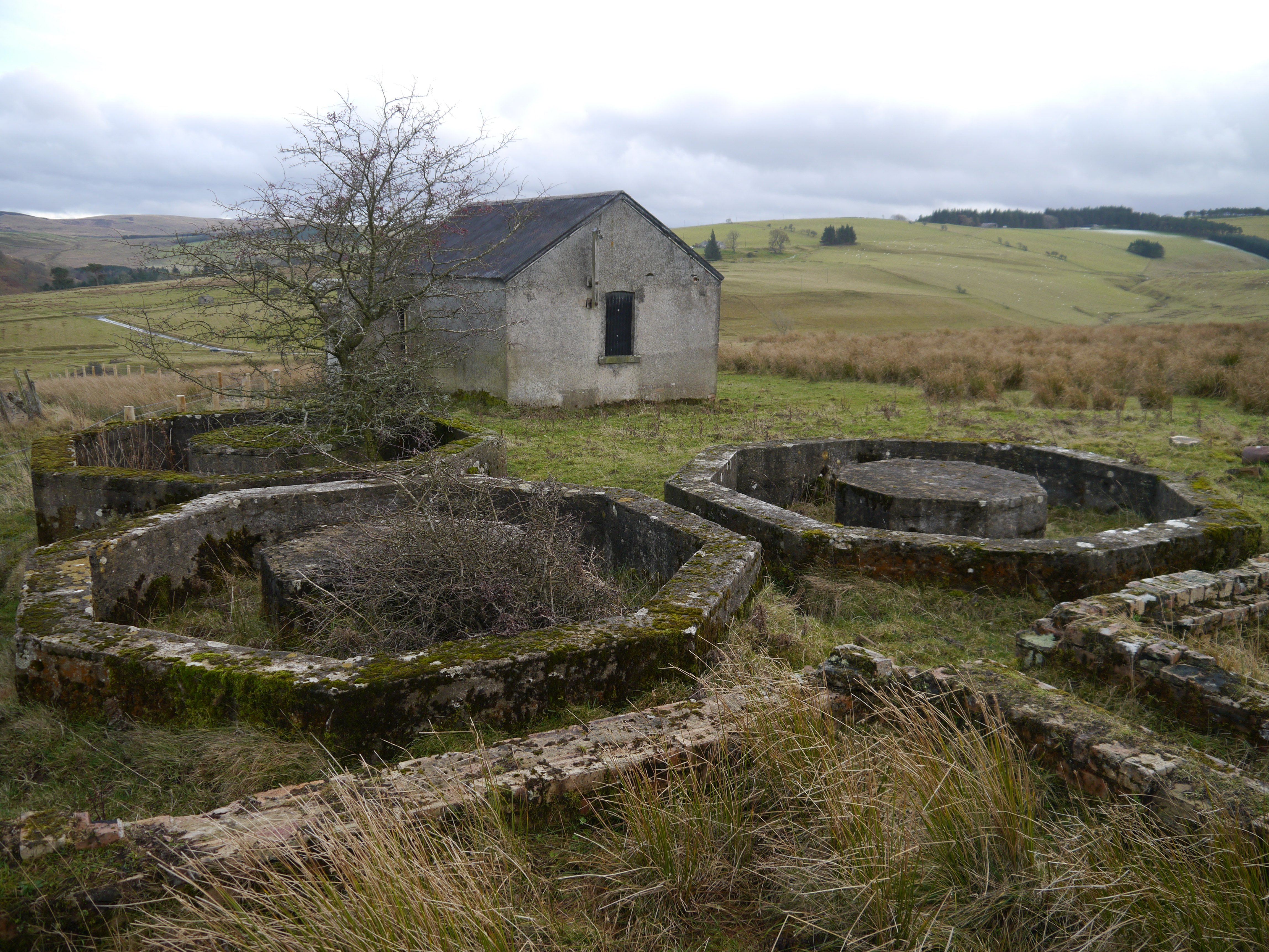 Stobs Military Camp, south of Hawick in the Scottish Borders. Three octagonal tanks and several rectangular tanks remain near the top of the site: it is unclear what these tanks contained.